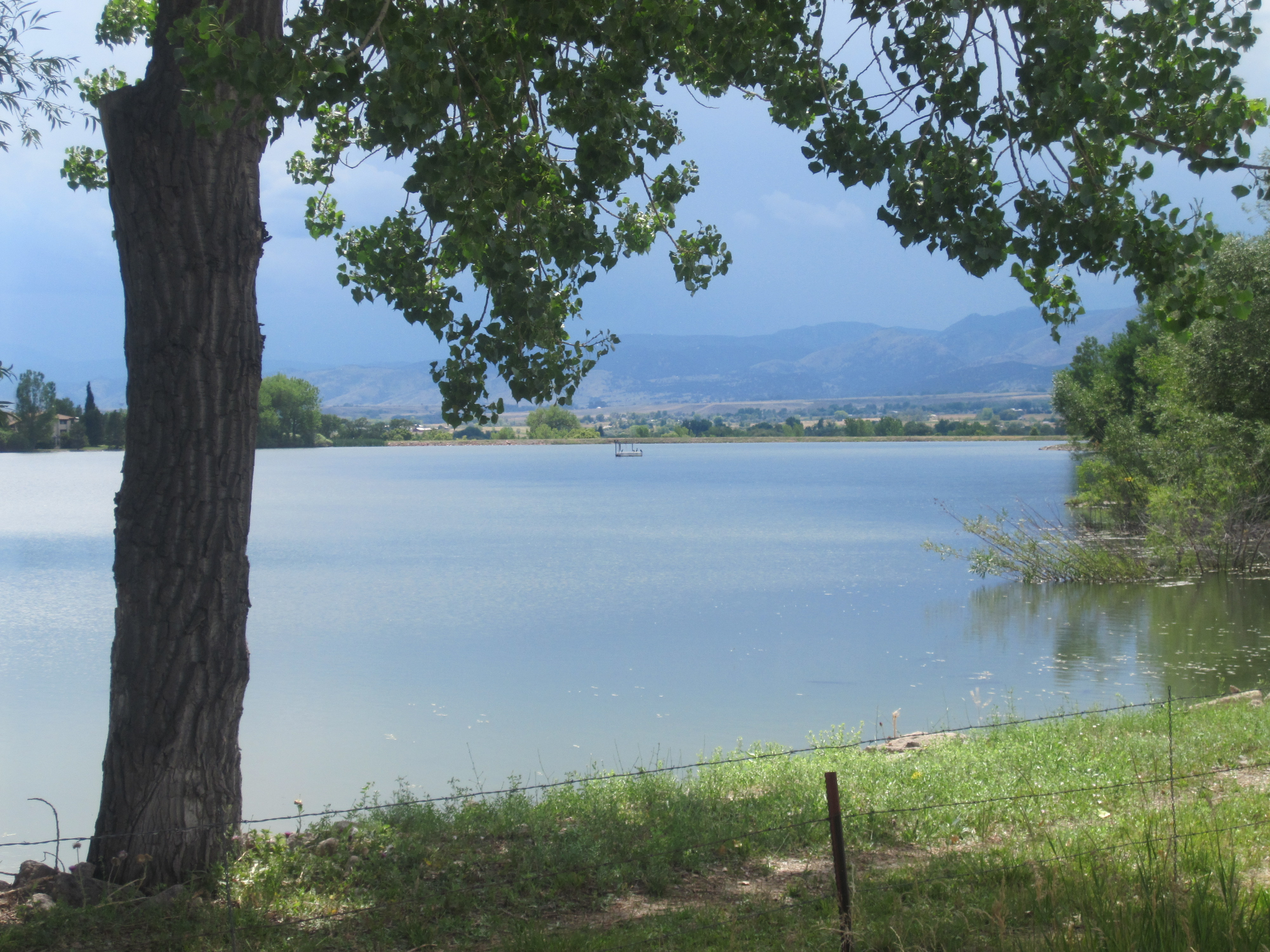 I took photo with Canon camera west of Longmont, CO.